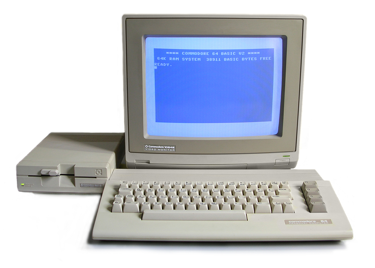 Commodore 64C system with 1541-II floppy drive and 1084S RGB monitor.